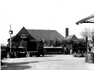 The factory of Yimin No.1 Food Factory in Shanghai, China in Early 1950s.中文（中国大陆）: 1950年代初期的上海益民食品一厂。吴语: 1950年代初期个上海益民食品一厂。